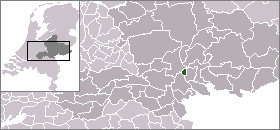 Locator map of Dutch municipalities in Gelderland (LocatieWestervoort.png)